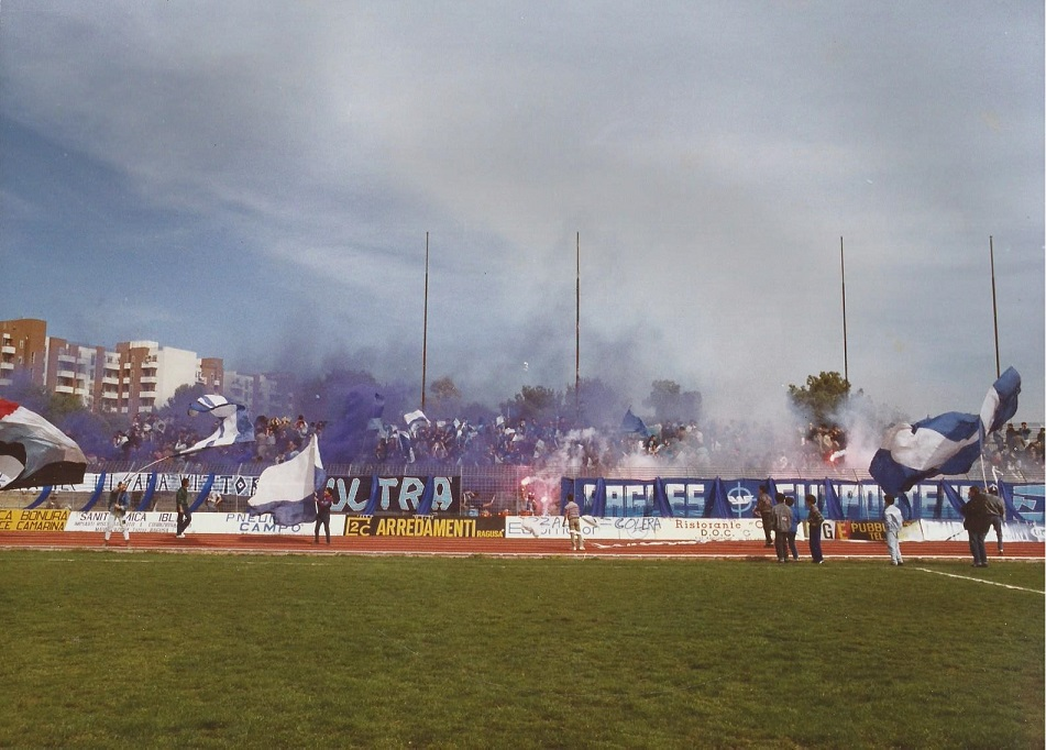 Supporters of Ragusa footbal club in 1988.